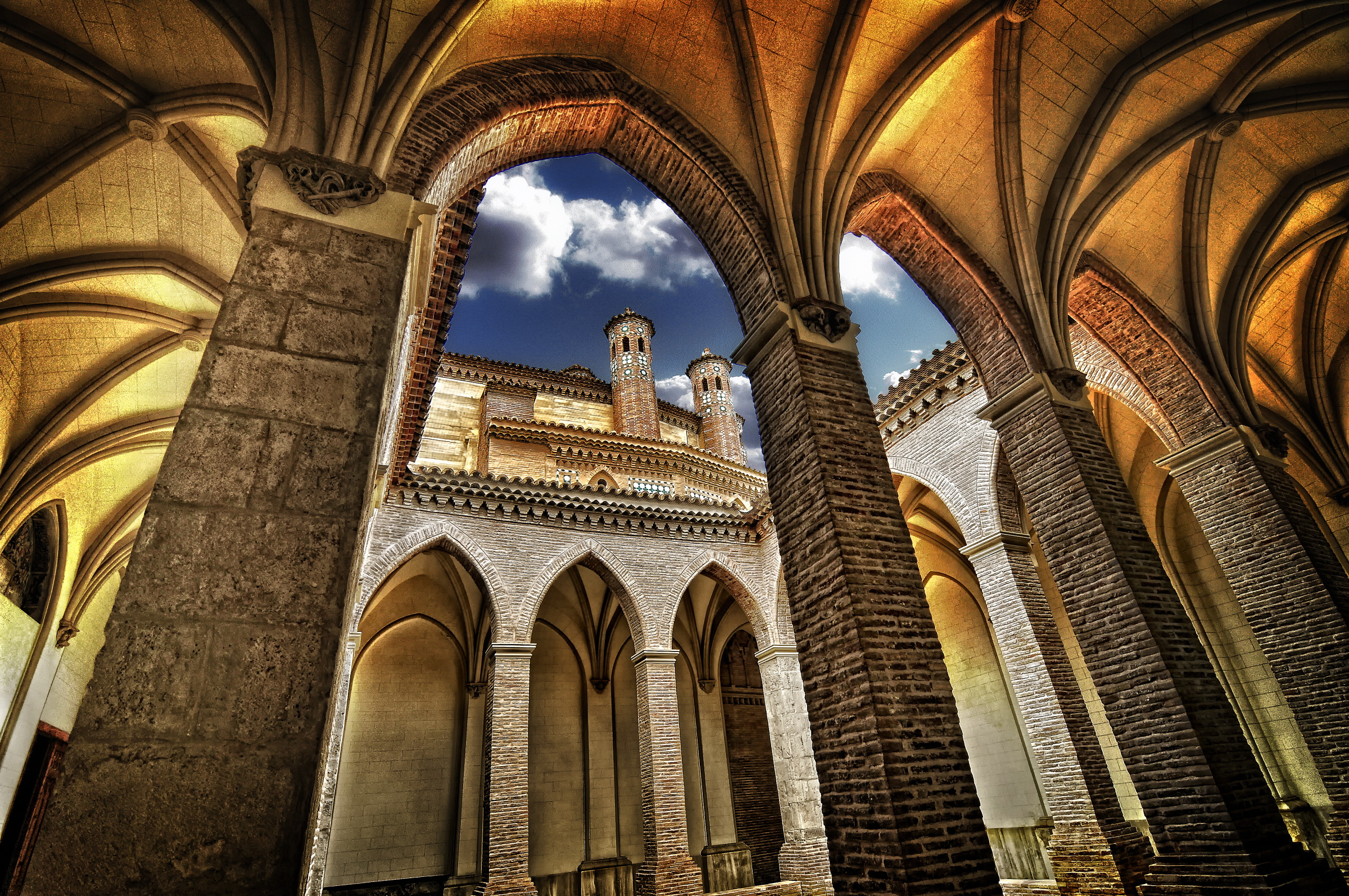 A Mudéjar-style cloister of the Iglesia de San Pedro (Church of Saint Peter) in Teruel, Aragon, Spain.